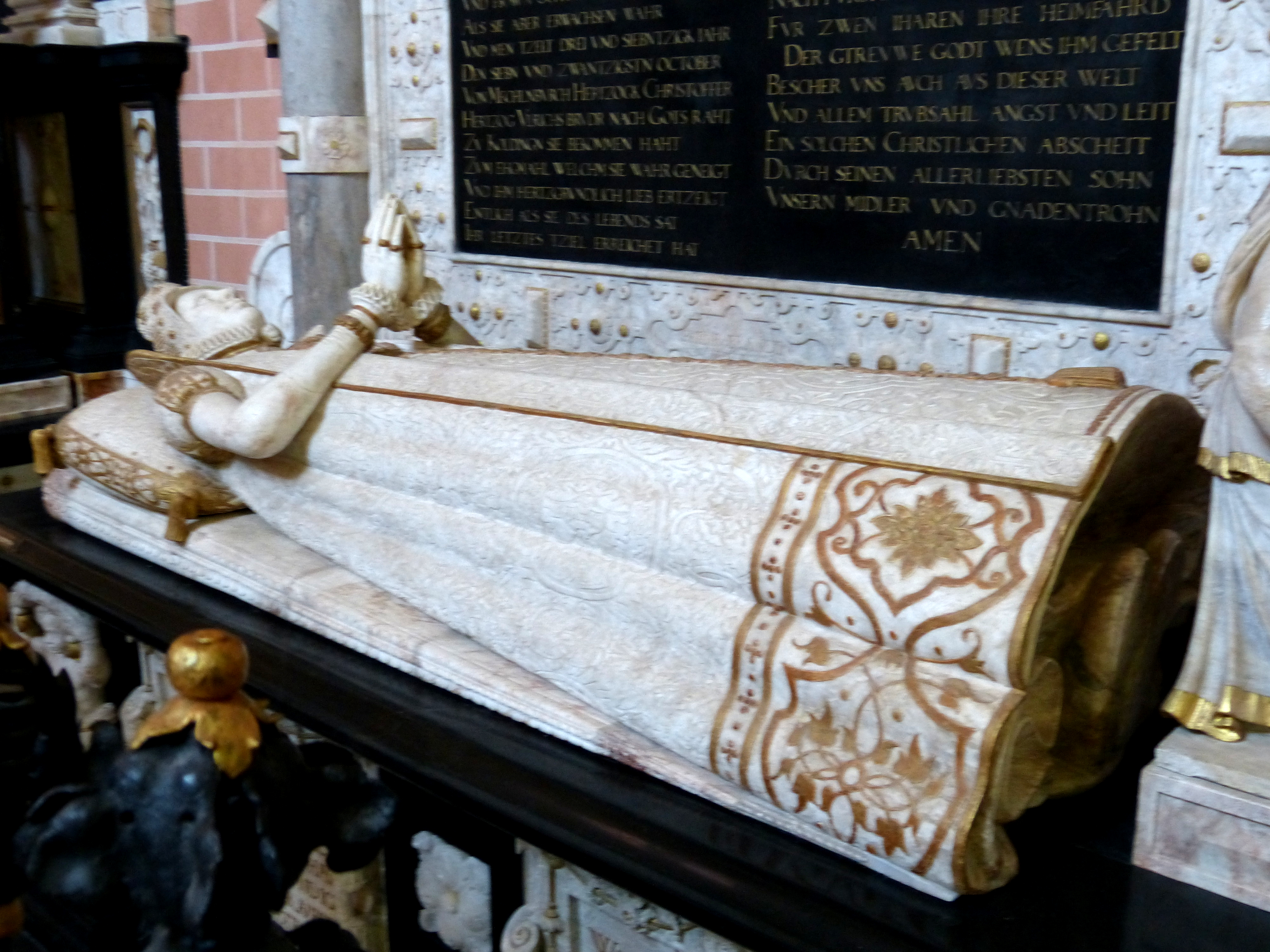 Güstrow ( Mecklenburg-Vorpommern ). Cathedral: Grave ( 1575 ) of Dorothy of Denmark, Duchess of Mecklenburg, by Philipp Brandin.